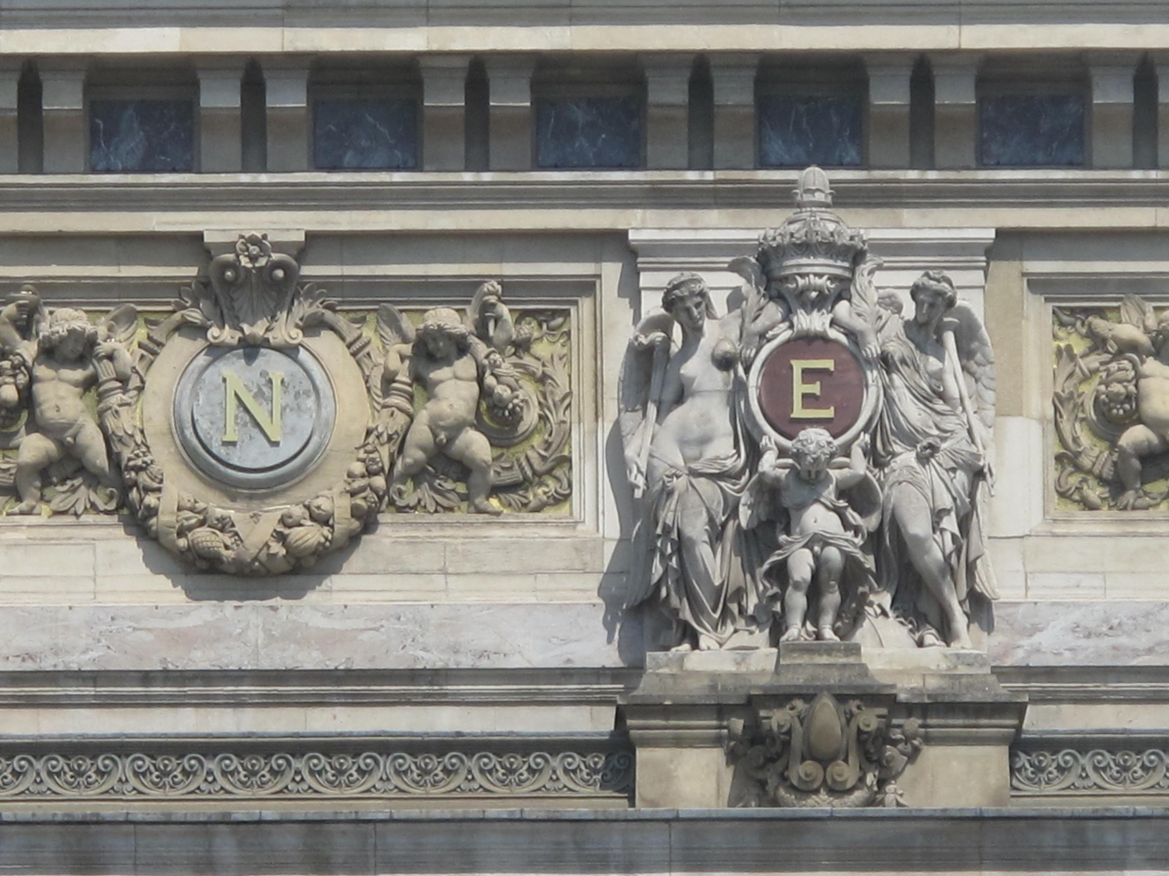 Monogram of Napoleon 3rd on the facade of the Opera Garnier in Paris. The "E" is for the empress Eugenie